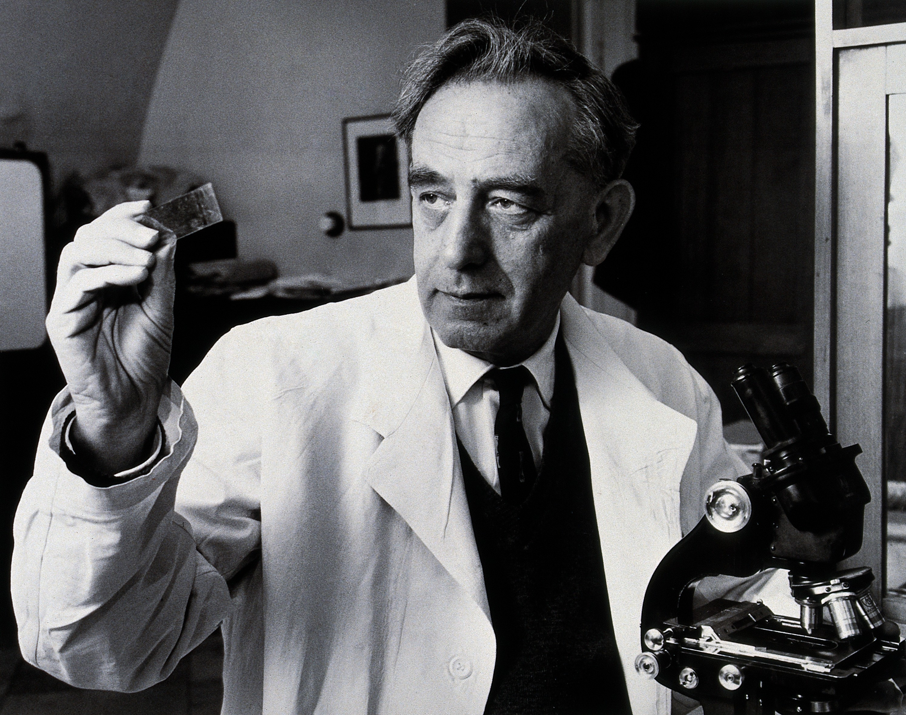 Saul Adler. Photograph by Harris. Iconographic Collections Keywords: portrait photographs